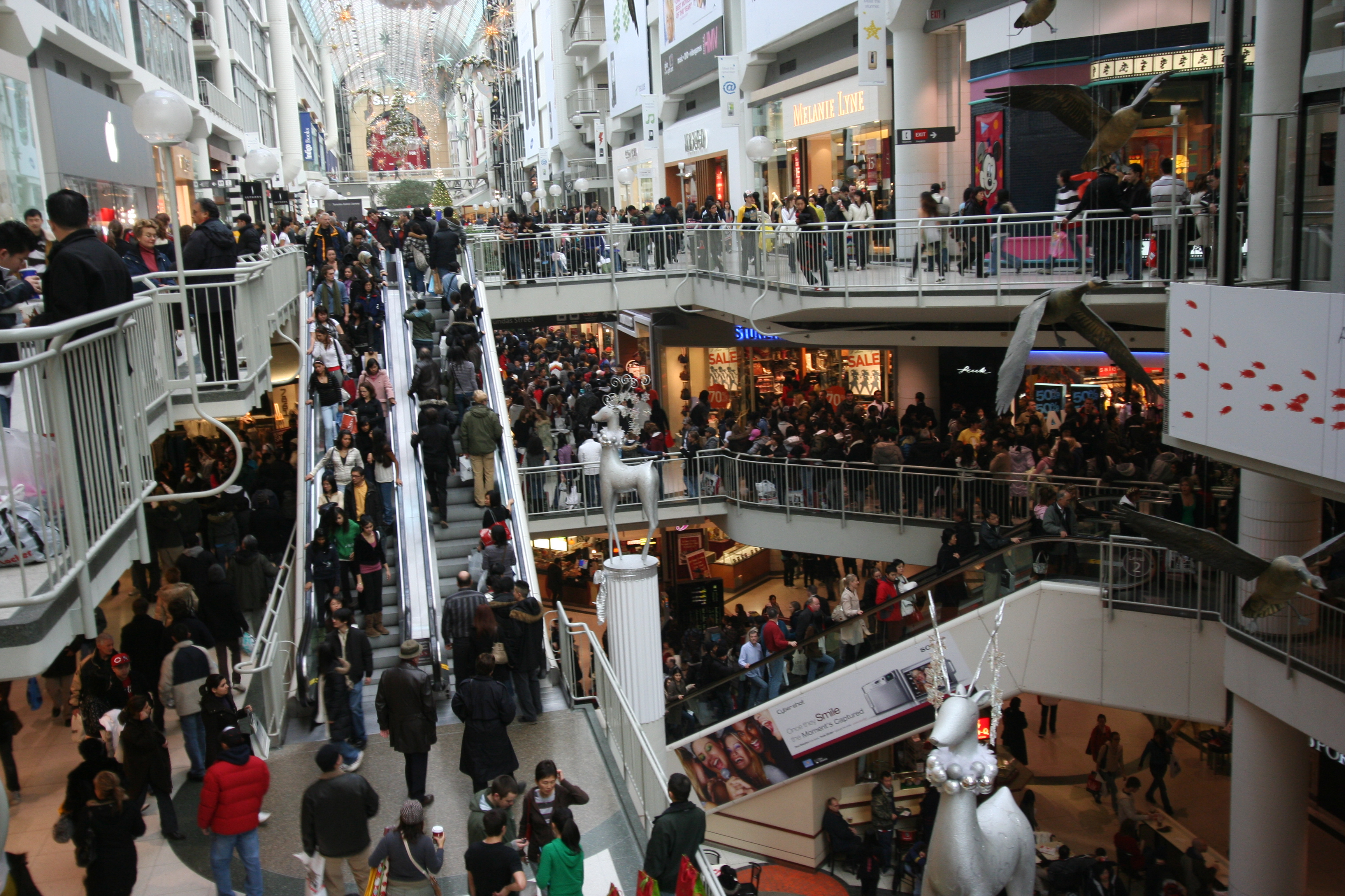 Boxing Day at Eaton Center